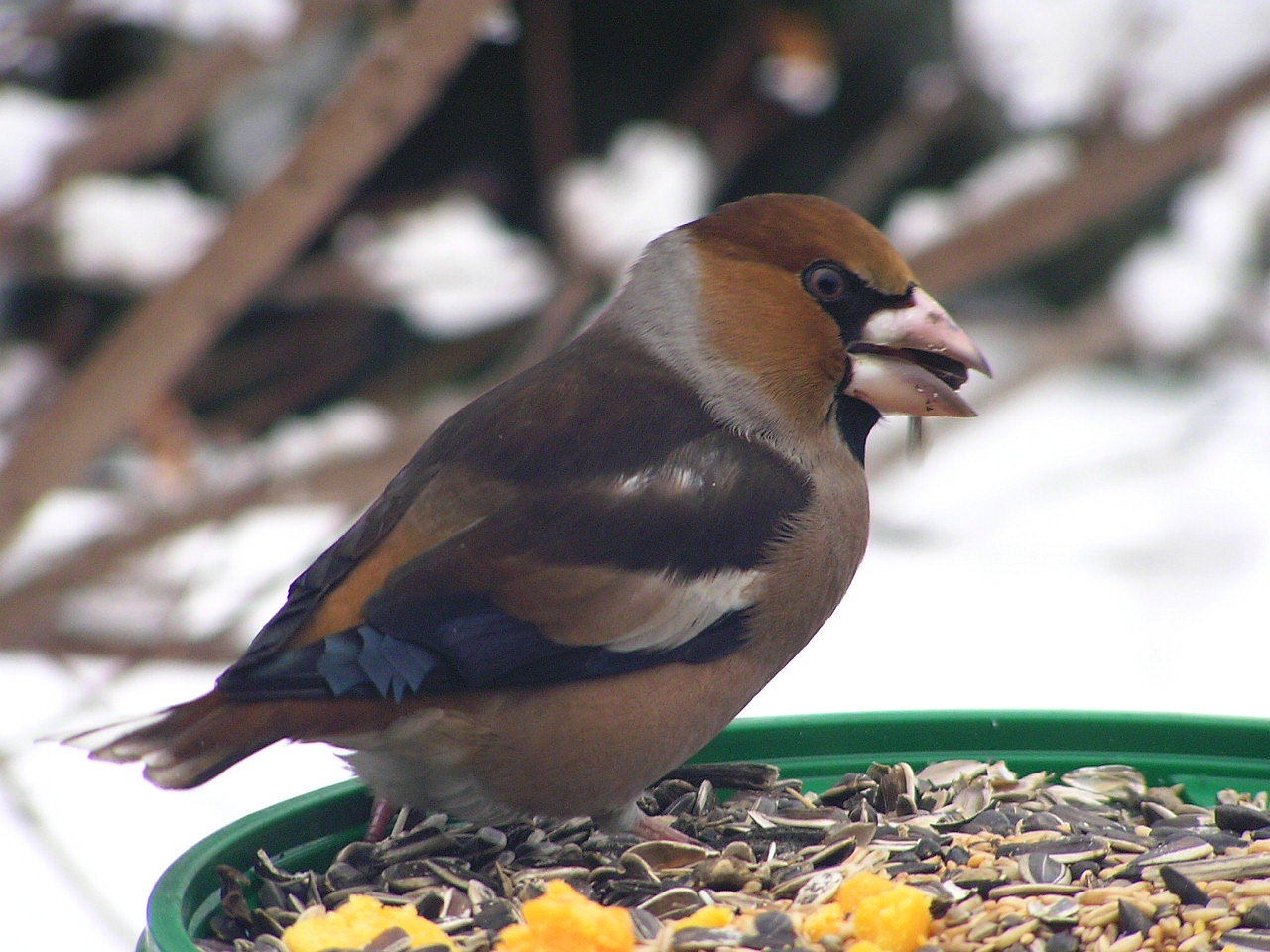 Hawfinch Coccothraustes coccothraustes in Bytom, Poland